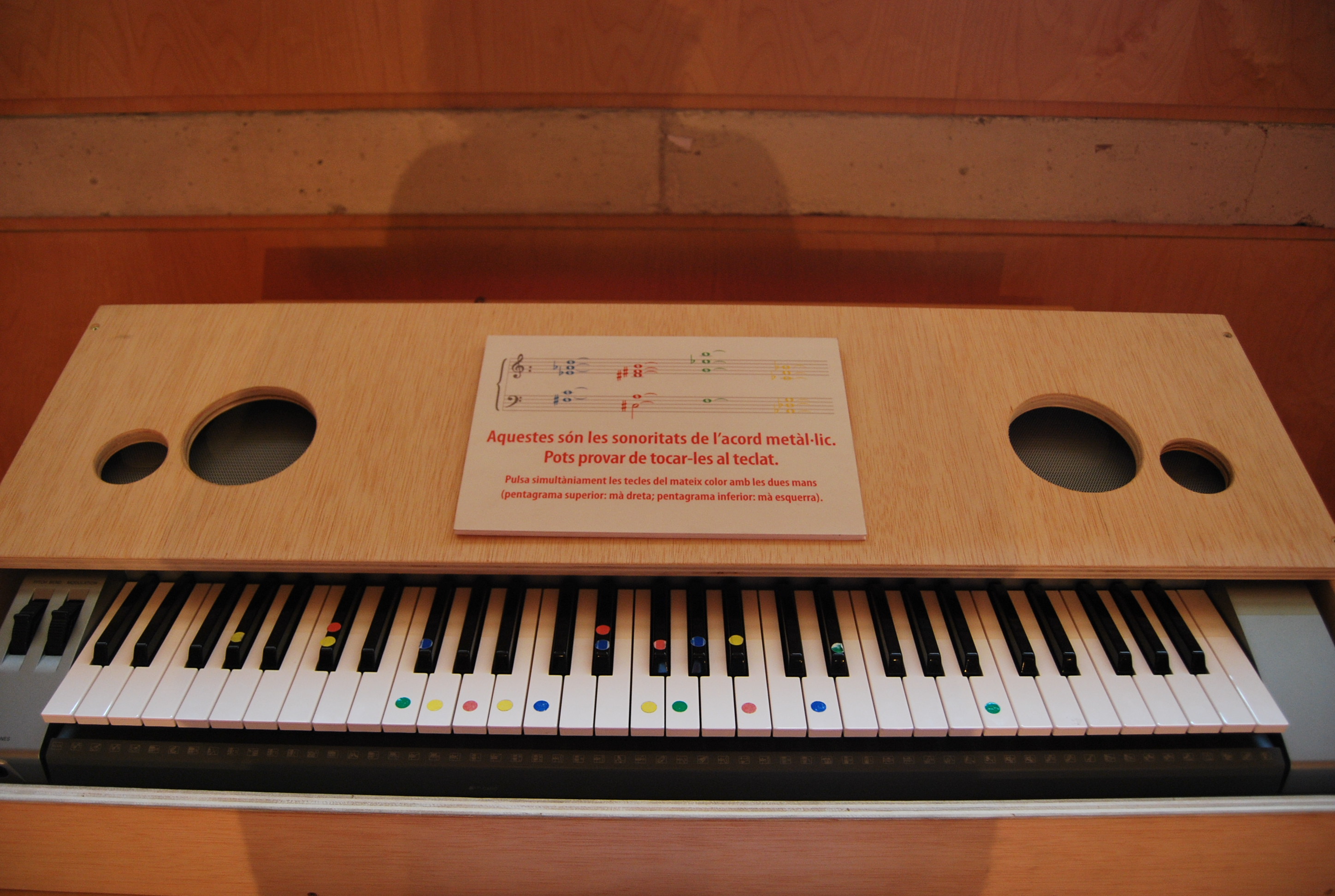 Mompou quote of description in Catalan: Aquestes són les sonoritats de l'acord metàl·lic. Pots provar de tocar-les al teclat. Pulsa simultàniament les tecles del mateix color amb les dues mans (pentagrama superior: mà dreta; pentagrama inferior: mà esquerra). translation in